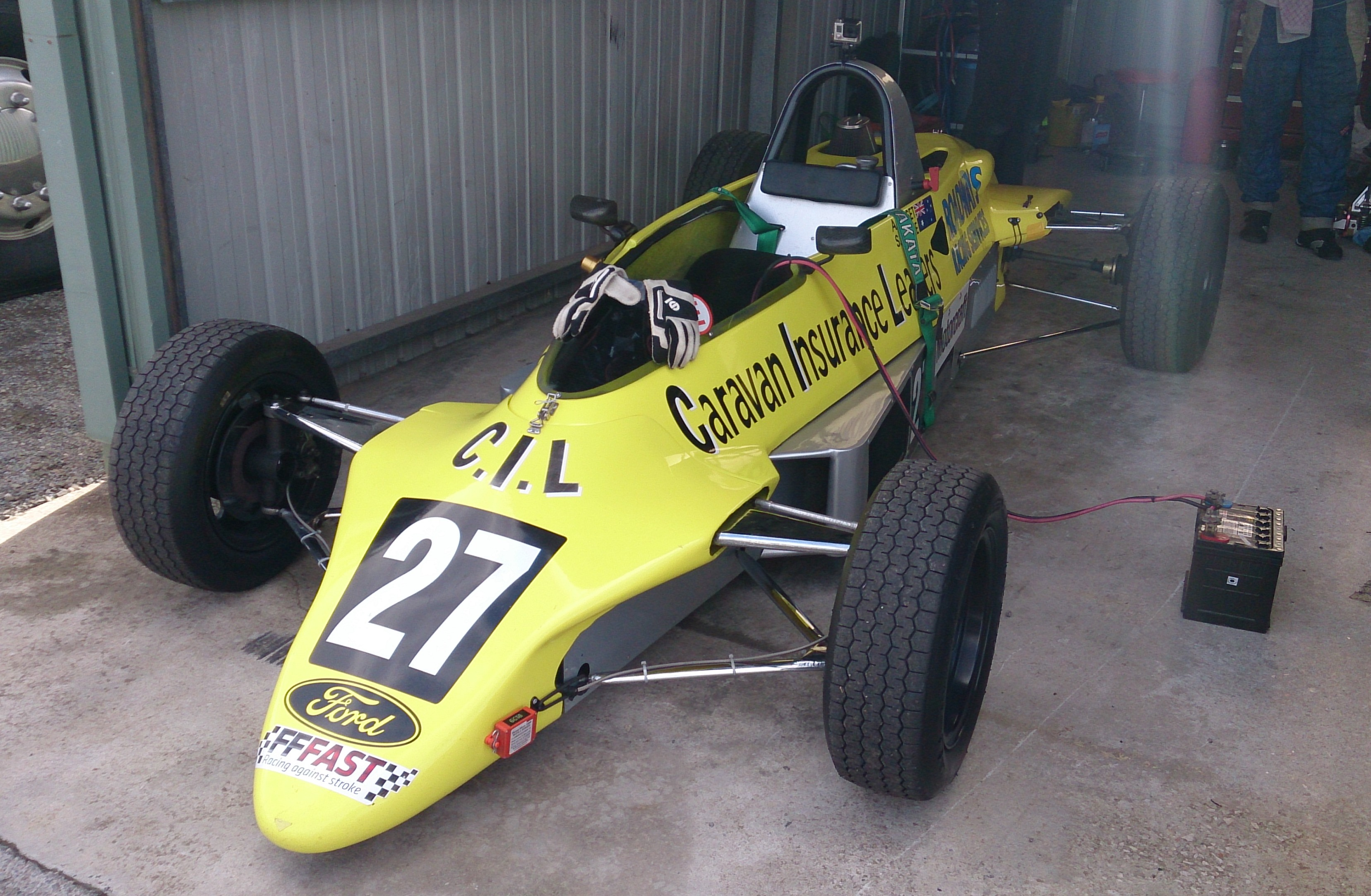 The Reynard 84FF of Scott Blake at Mallala Motor Sport Park on 26 April 2015. The car was competing in the races for Group F Formula Ford Racing Cars (built before 1990). Alan Bisset had placed second in the 1986 Motorcraft Formula Ford Driver to Europe Series driving this car in this color scheme.